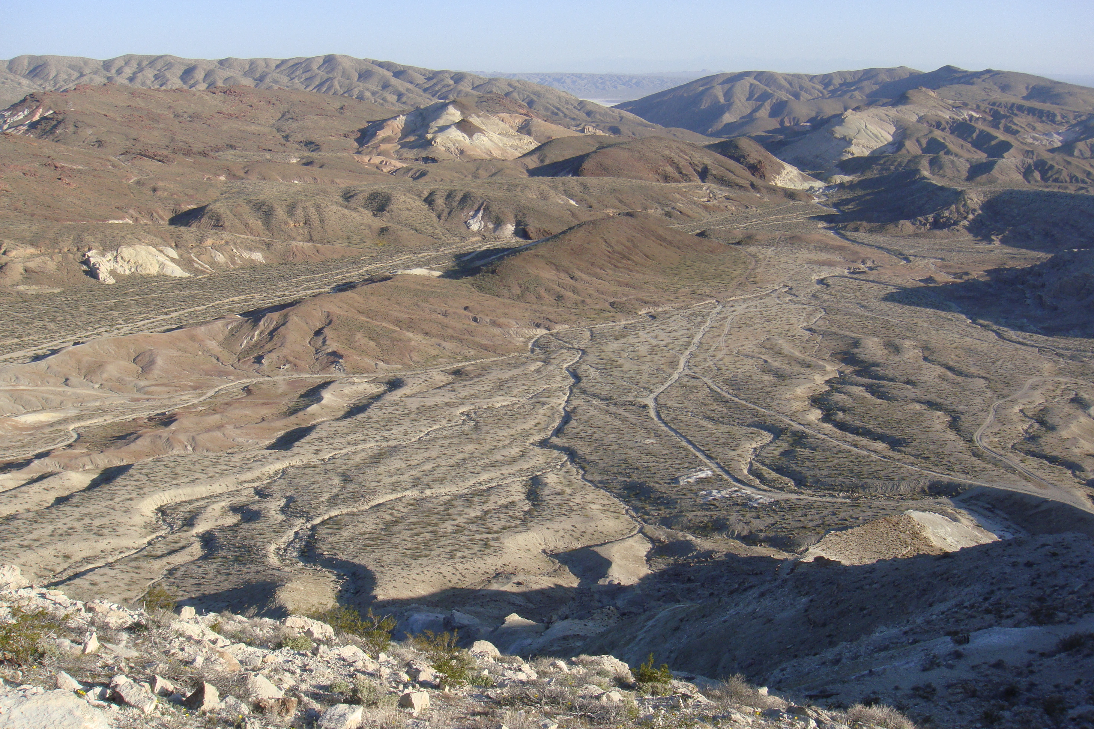 An alluvial plain located in Red Rock Canyon State Park, California. Though it is small, it still shows the gentle slope. Note the later incision by more recent erosion.